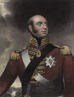 Prince Edward, Duke of Kent and Strathearn (1767-1820)